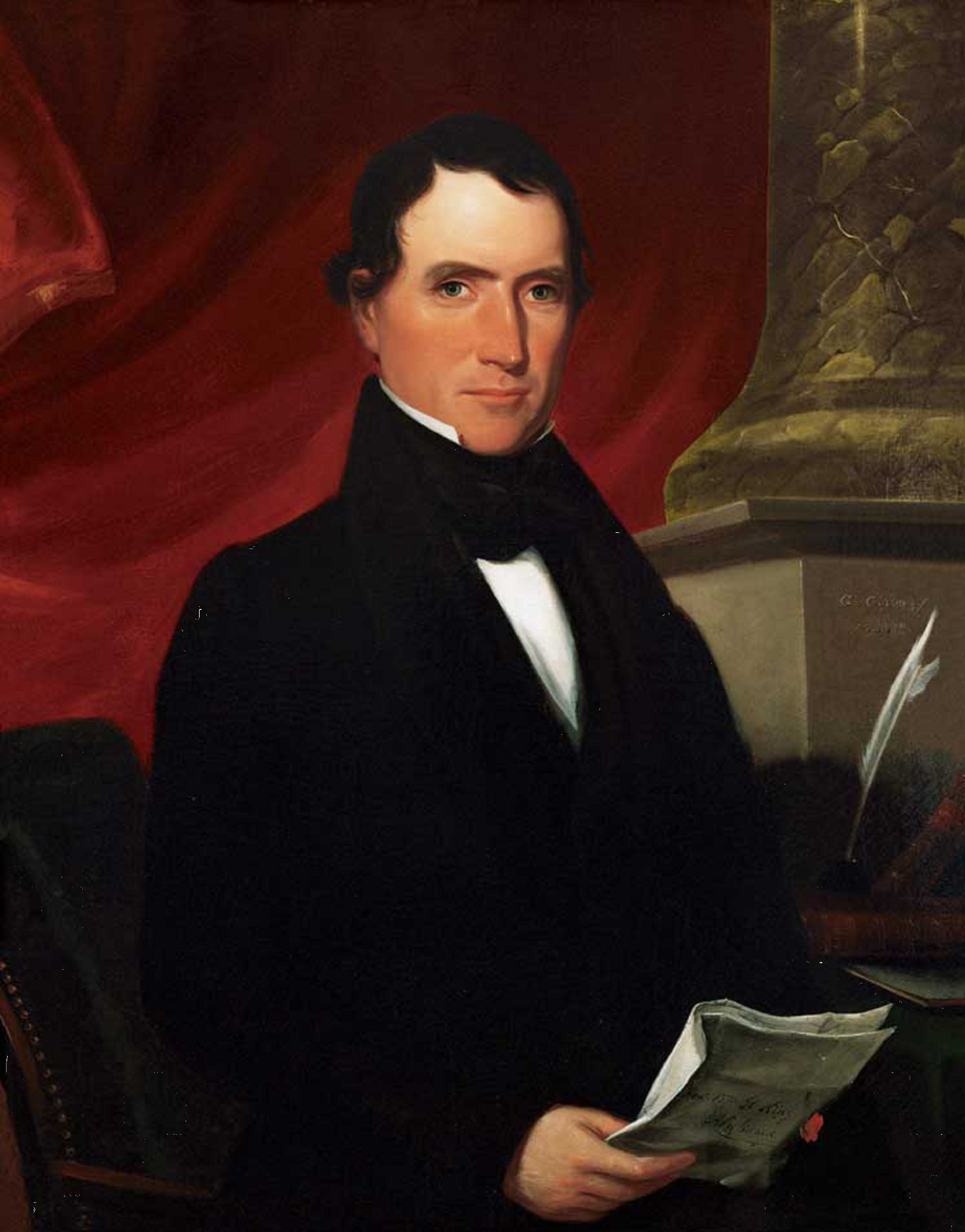 Oil on canvas portrait of William R. King (April 7, 1786 – April 18, 1853), 36 by 29.25 inches (91.4 cm × 74.3 cm)